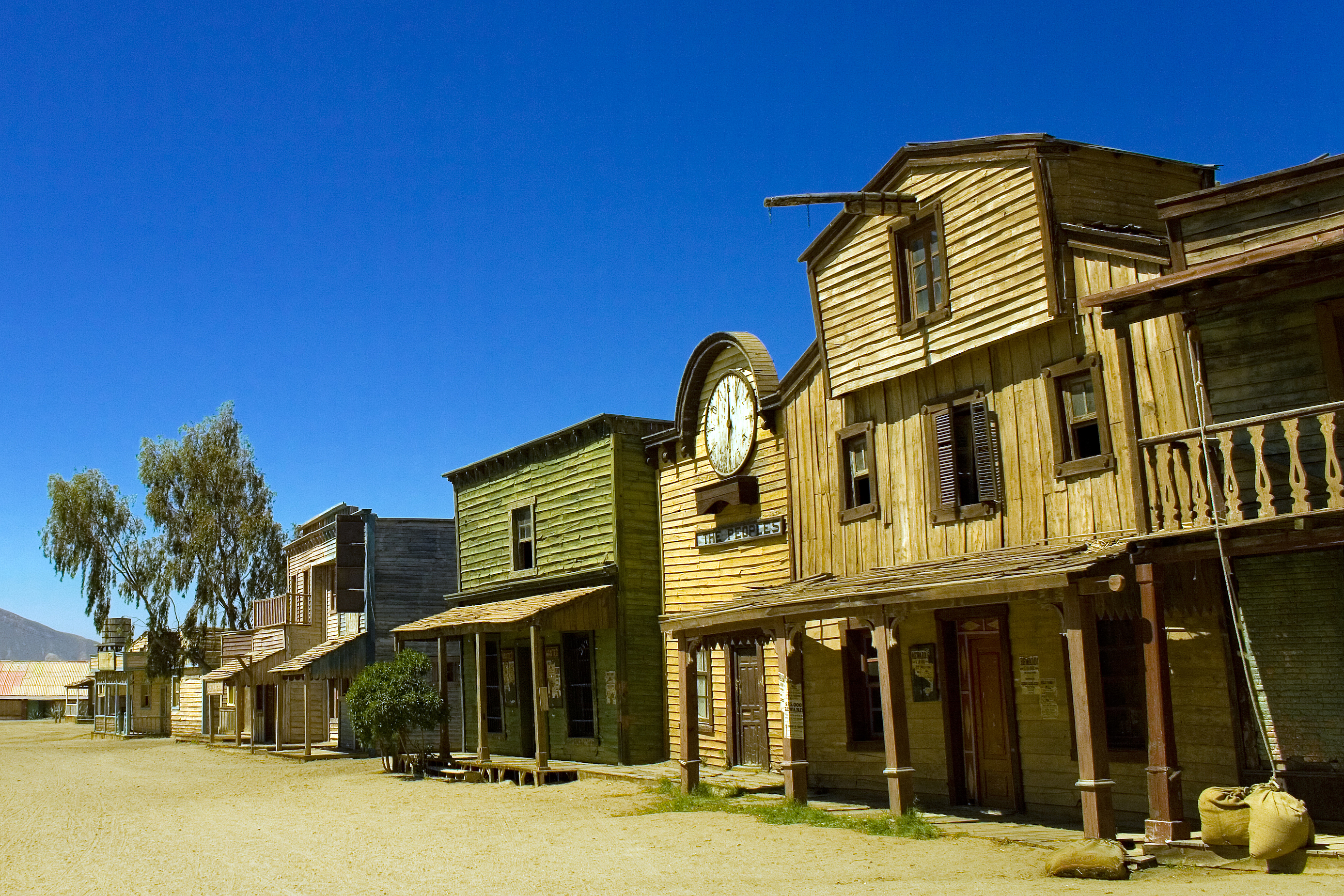 A view of buildings along a street in Texas Hollywood